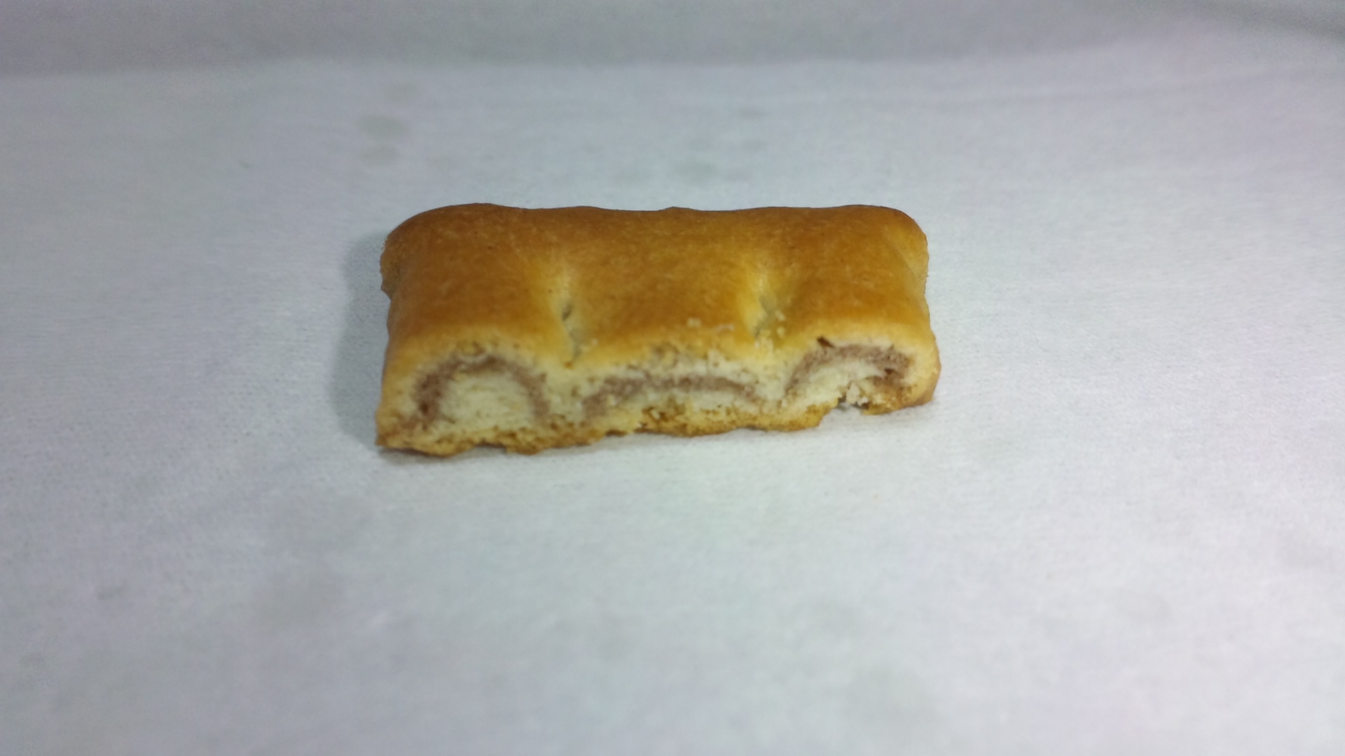 Cross section of Shiruko Sandwich. It's understood that it's a trilaminar structure of the cloth and bean jam.